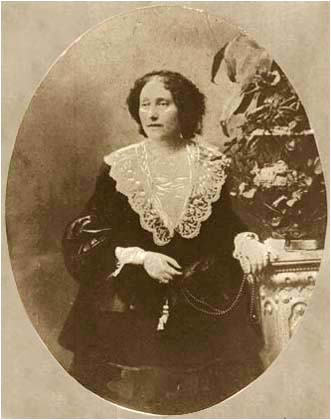 Nina Chavchavadze, widow of Alexander Griboedov, shortly before death.